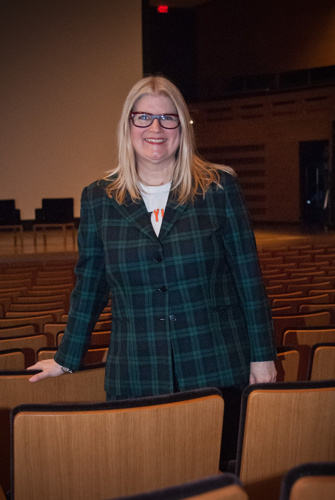 Photo of Wanda Koop at the Canadian Art Reel Artists Film Festival.